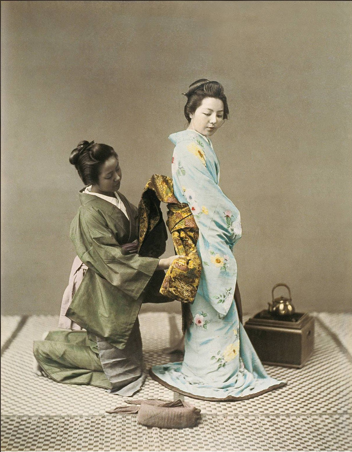 A geisha tying the obi c. 1890.